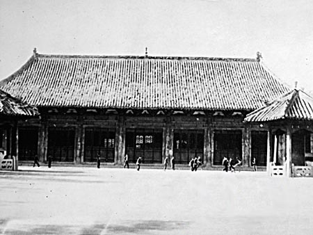 Dacheng Hall of Jinan Confucian Temple, 1950s